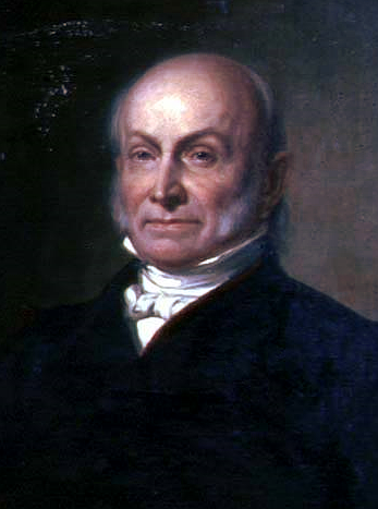 Picture of John Quincy Adams